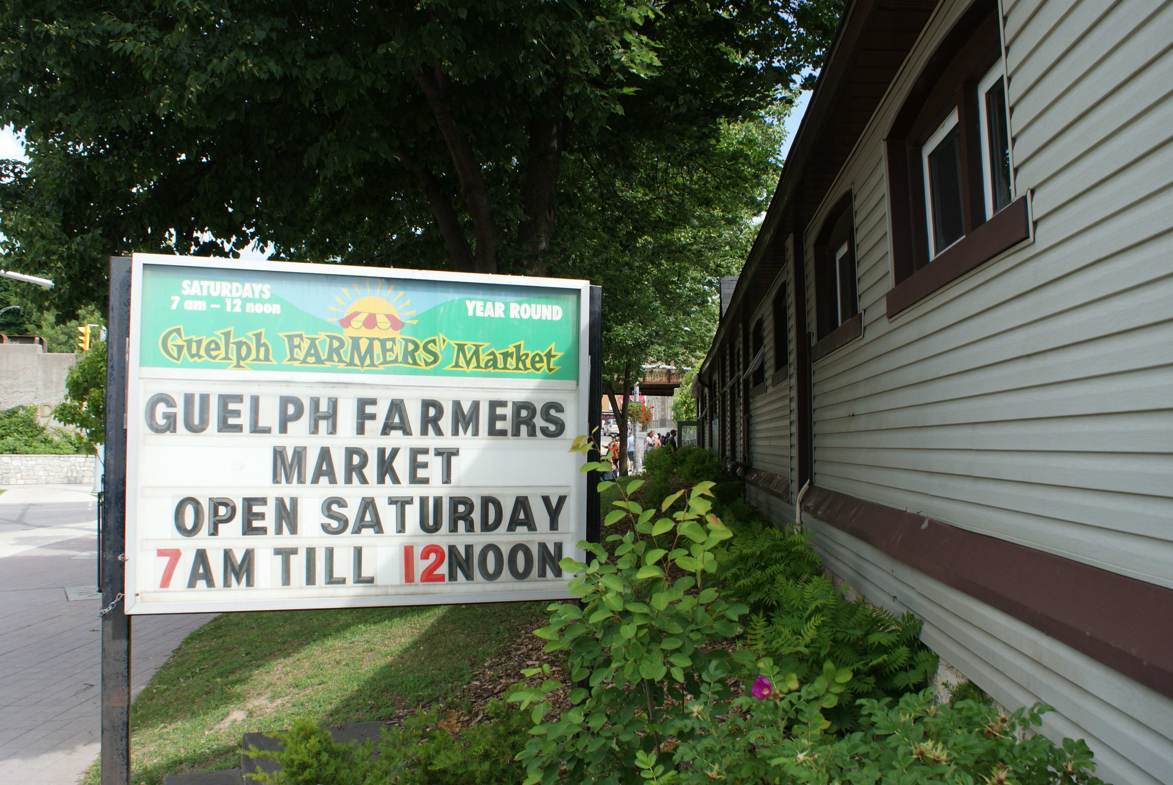 Sign outside the Guelph Farmer's Market, Guelph, Ontario, Canada